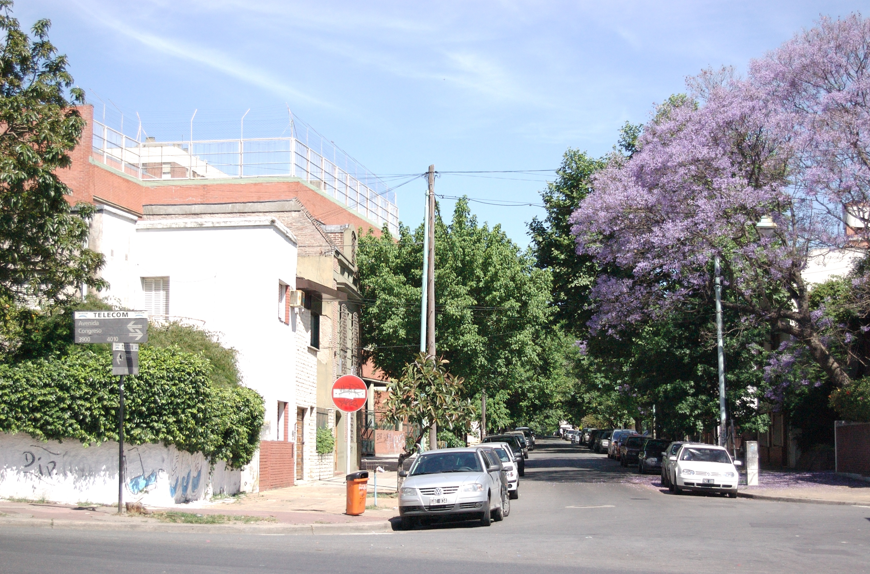 Congreso and Tronador Streets, Villa Urquiza ward, Buenos Aires.